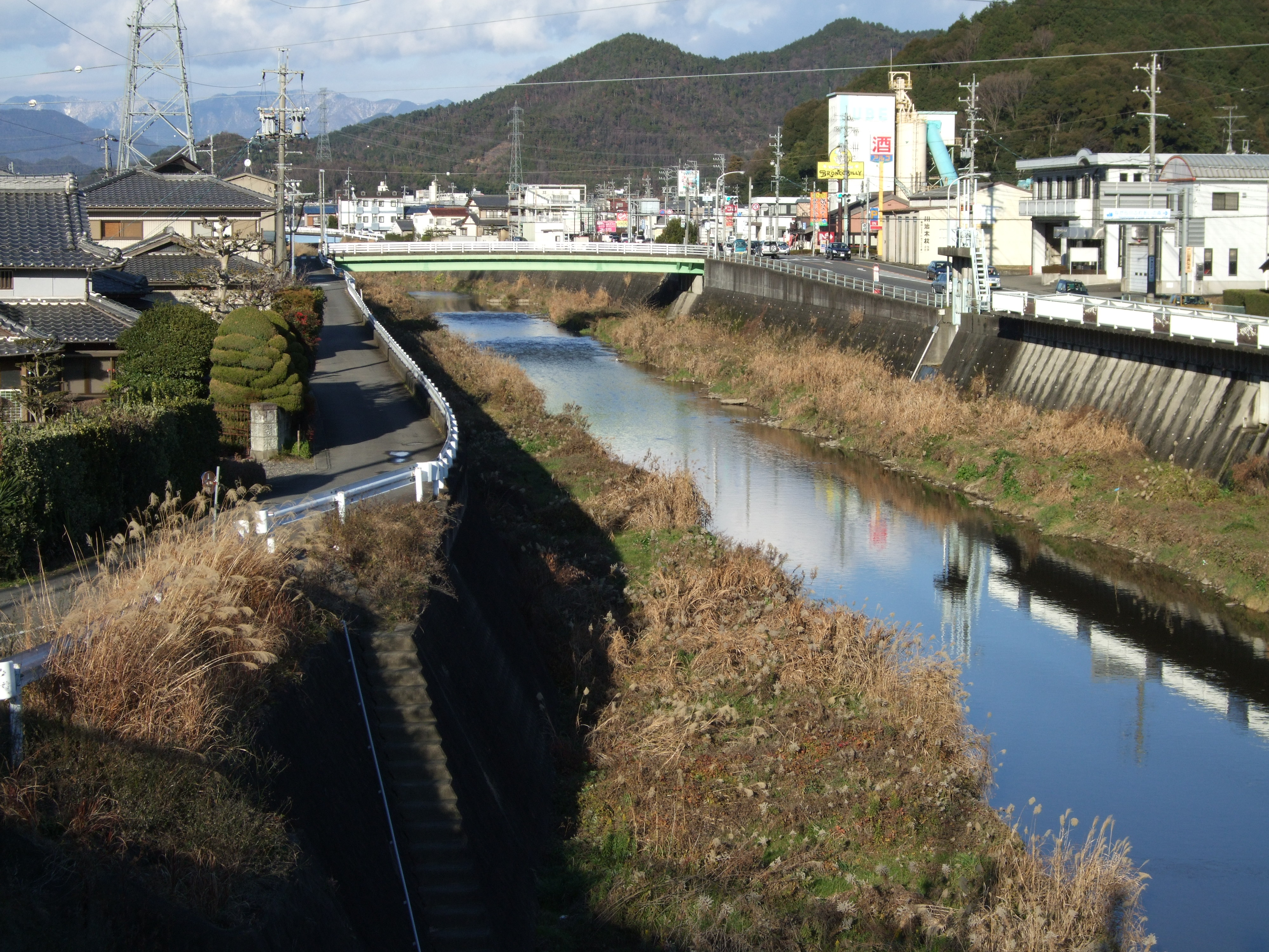 Toba-river,a branch of The Nagara,in Gifu,Japan